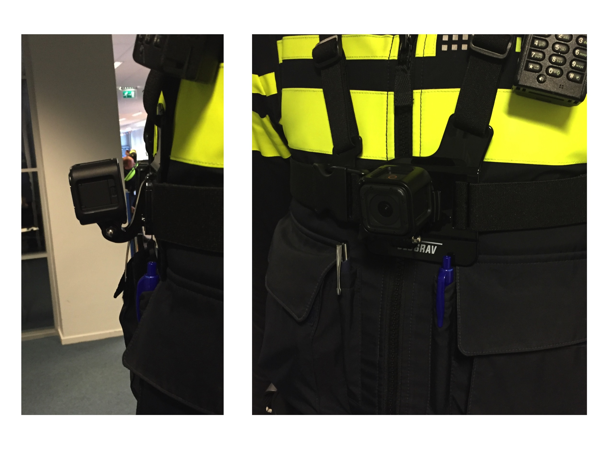 Bodycam used by police Utrecht, The Netherlands